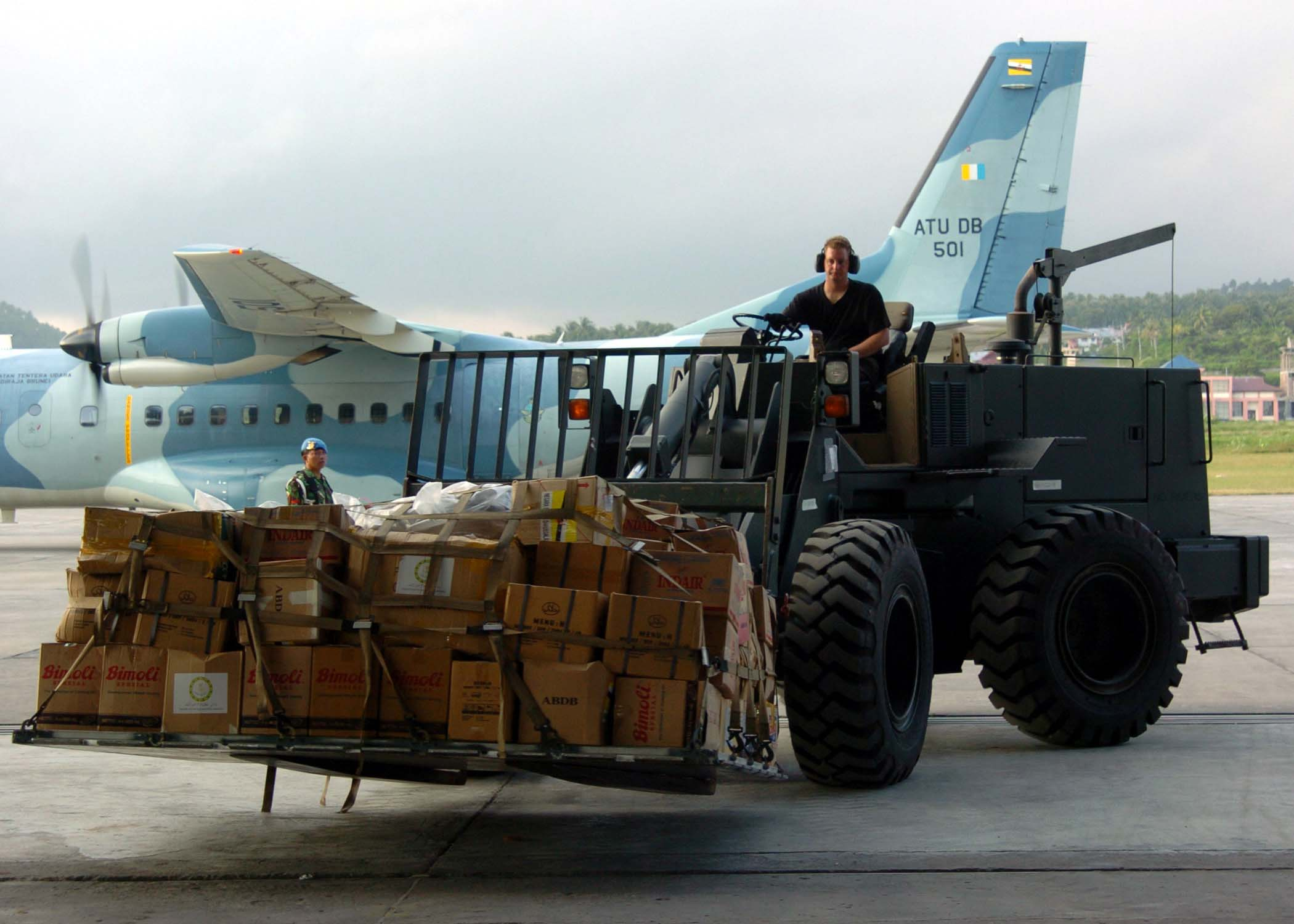 Banda Aceh, Sumatra, Indonesia (Jan. 23, 2005) - U.S. Air Force Staff Sgt. Austin Bretwell, assigned to the 615th Air Mobility Operations Group, drives a five ton forklift as he transports food, clothing and relief supplies from a warehouse to awaiting U.S. Navy helicopters at Sultan Iskandar Muda Air Force Base, in Banda Aceh, Sumatra, Indonesia. Essex is currently underway in support of Operation Unified Assistance, the humanitarian operation effort in the wake of the Tsunami that struck South East Asia. Essex is the Navy's only forward deployed amphibious assault ship homeported in Sasebo, Japan. U.S. Navy photo by Photographer's Mate 3rd Class Travis M. Burns (RELEASED)